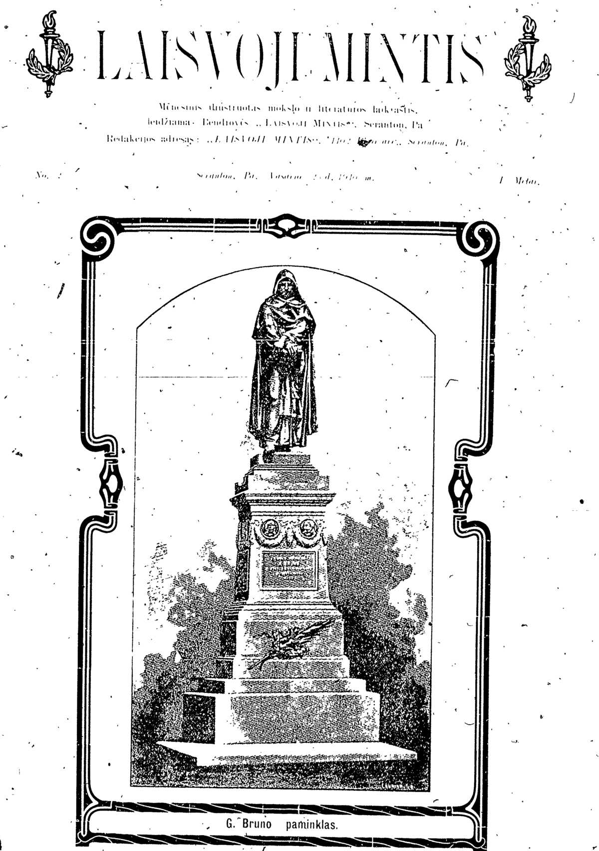 Cover of Laisvoji mintis, volume 2, Lithuanian-language magazine on freethought published in Pennsylvania